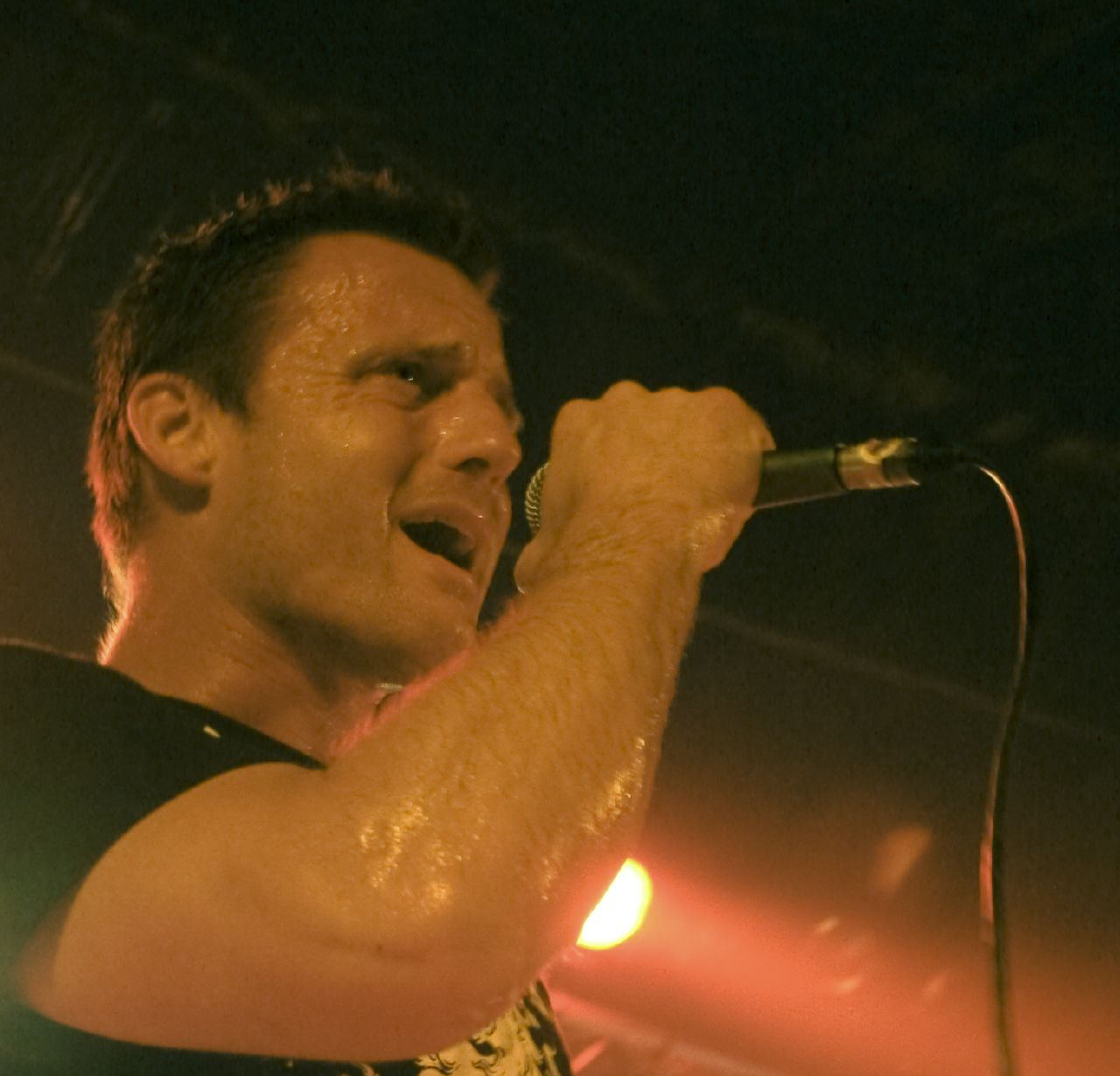 Zoli Teglas, frontman of the band Ignite, at Rio Rock.